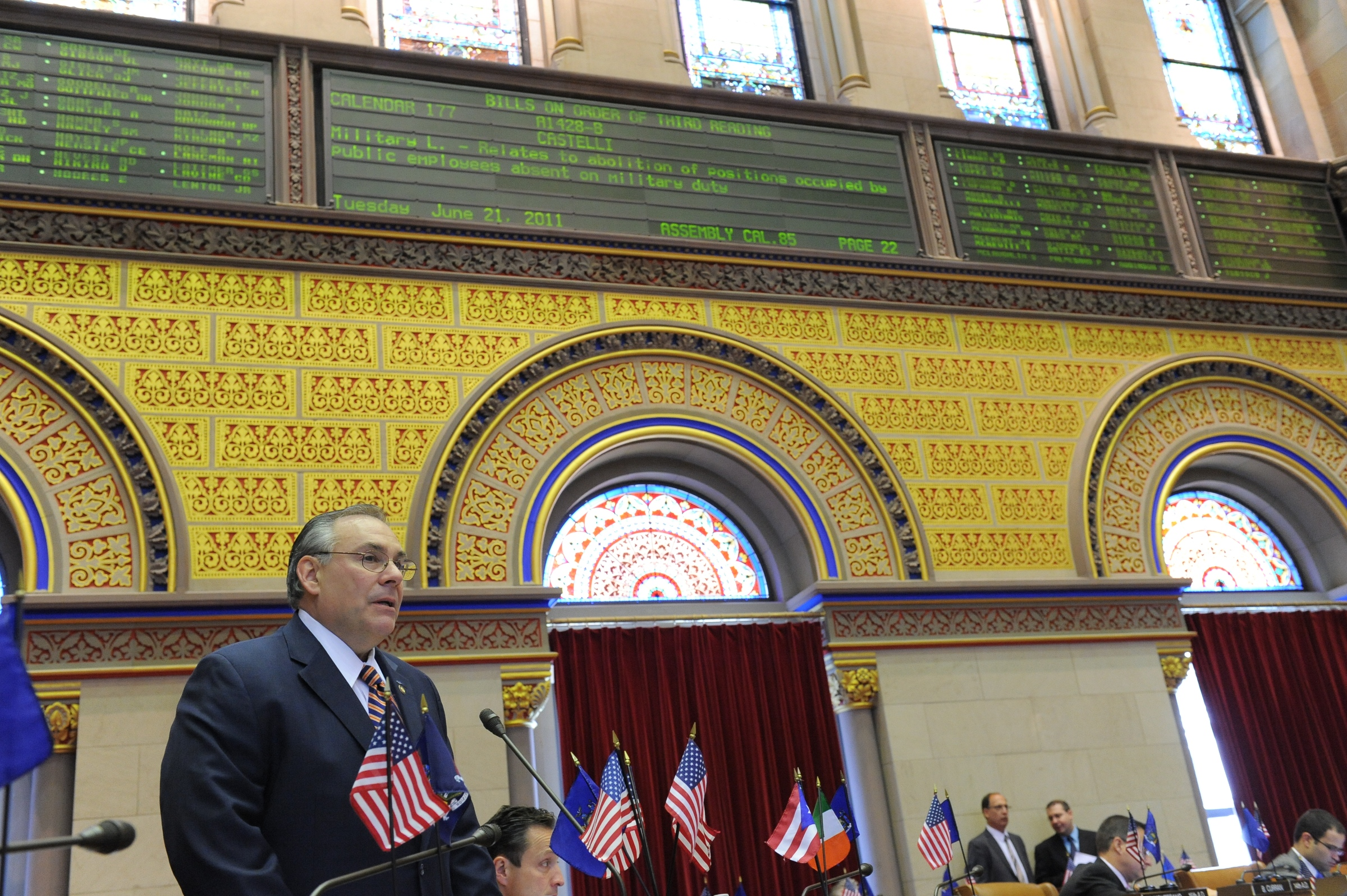 In 2011, New York State Assemblyman Bob Castelli becomes the first member of the Assembly Minority to pass a "statewide" bill into law since 2007. The bill prohibits public employers from abolishing positions occupied by persons absent on military duty.